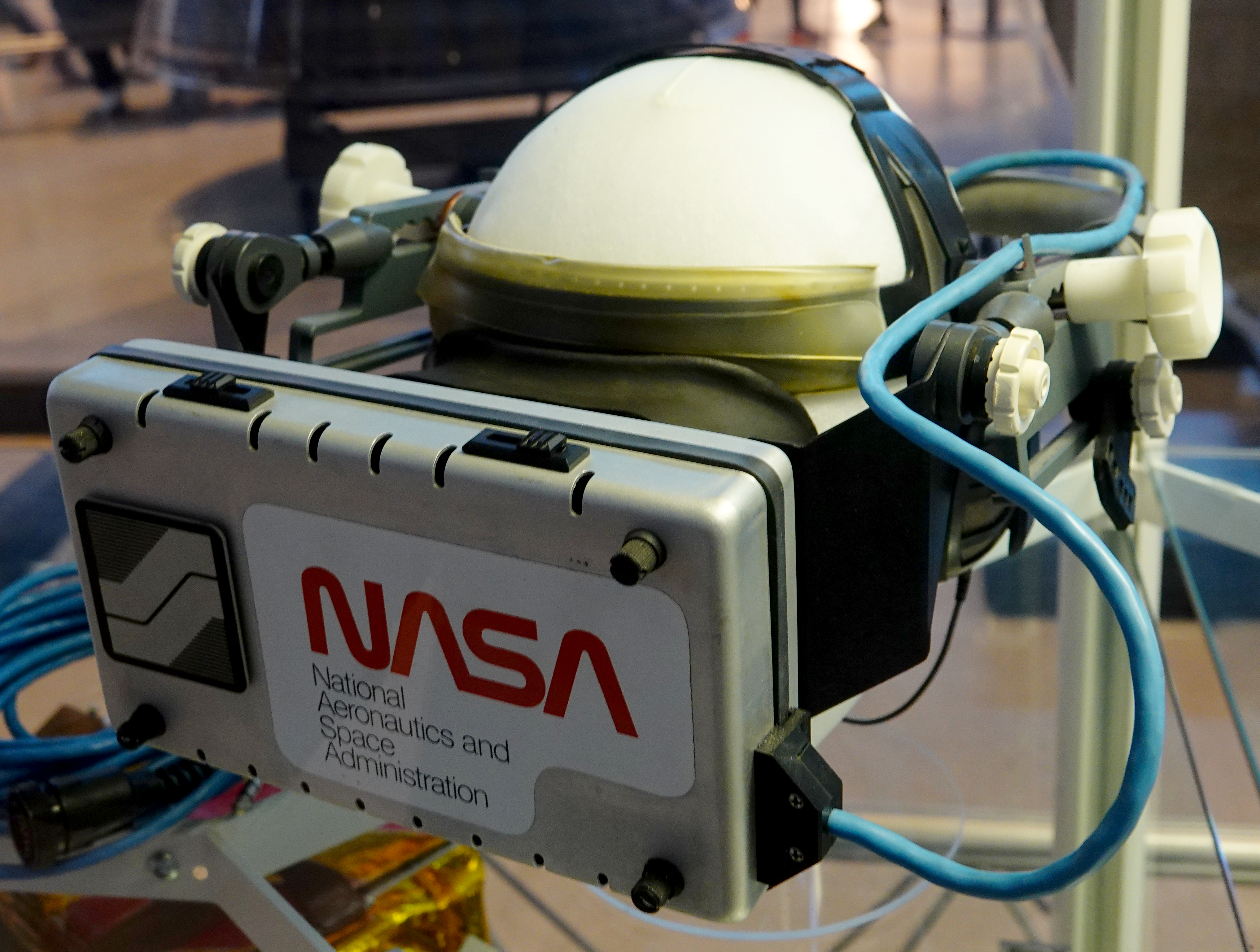 This handmade prototype headset is for one of the first “virtual reality” displays ever built. Developed in 1985 by Jim Humphries and Mike McGreevy at NASA’s Ames Research Center in California, the system created a computer-generated image of what a pilot might see during an actual flight. It was intended to test concepts of presenting visual information to pilots or astronauts. Sensors tracked the movement of the wearer’s head, and the displayed images moved accordingly. James Humphries donated this to the Museum in 1997. Picture taken at the National Air and Space Museum's Steven F. Udvar-Hazy Center in Chantilly, Virginia, USA.